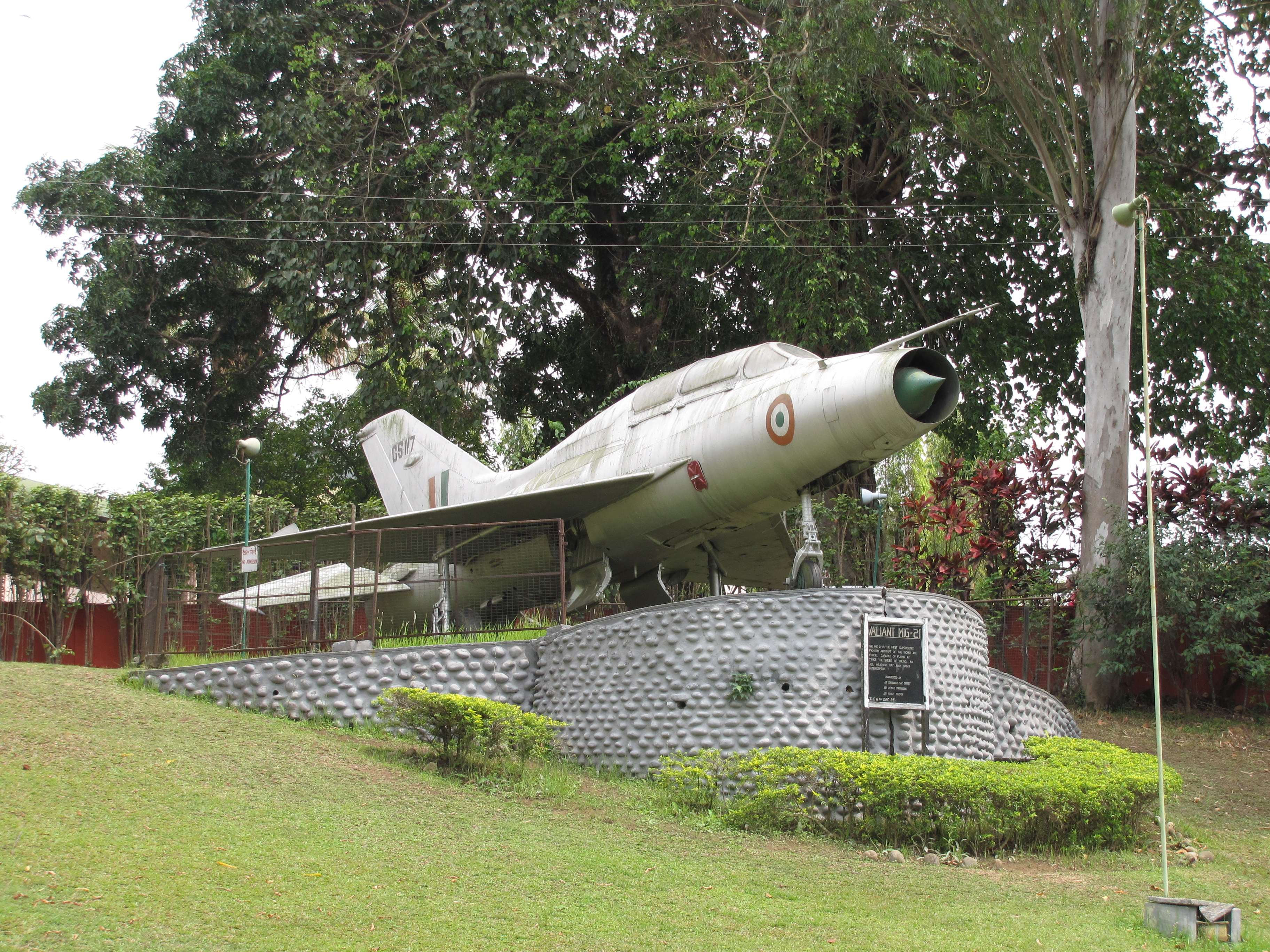 The jet fighter (Valiant MIG 21 model) at Cole Park,Tezpur